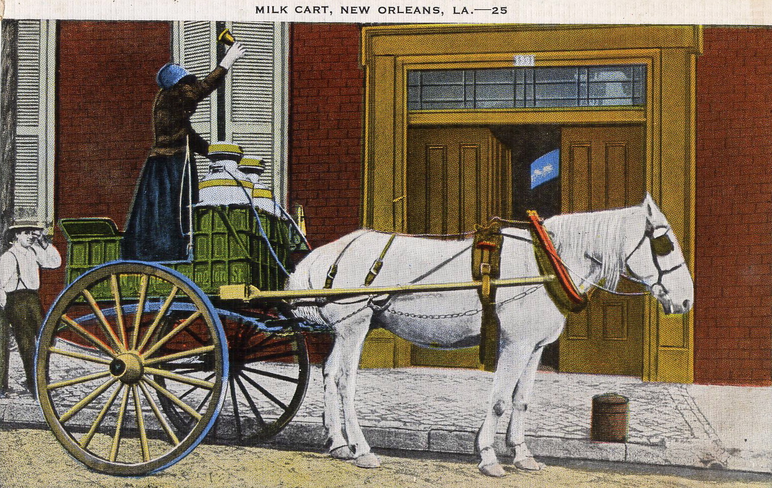 Milk Cart, New Orleans, Louisiana. Early 20th century postcard. Milk vender rides on horse cart, ringing a bell to draw cusomers.